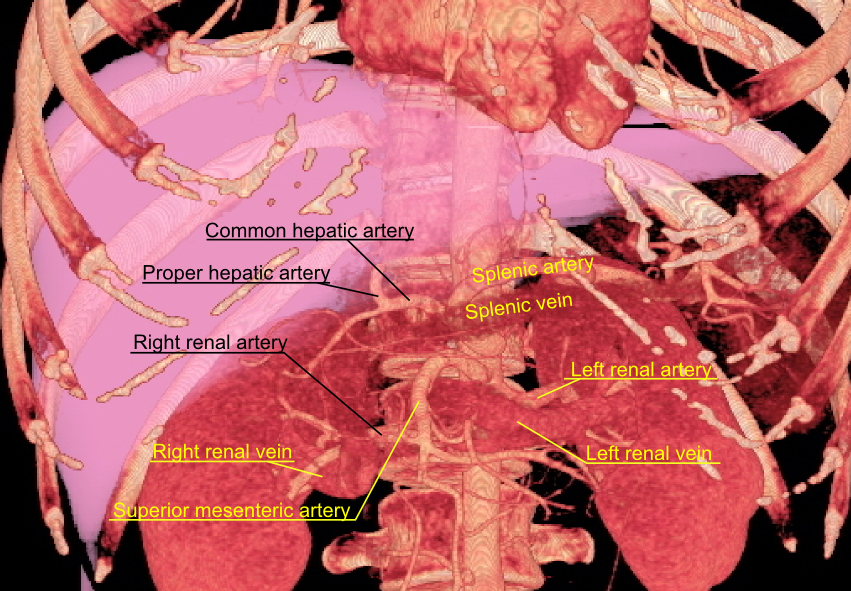 3D rendered computed tomography of abdominal aortic branches and kidneys. Inferior vena cava is not visible, however.